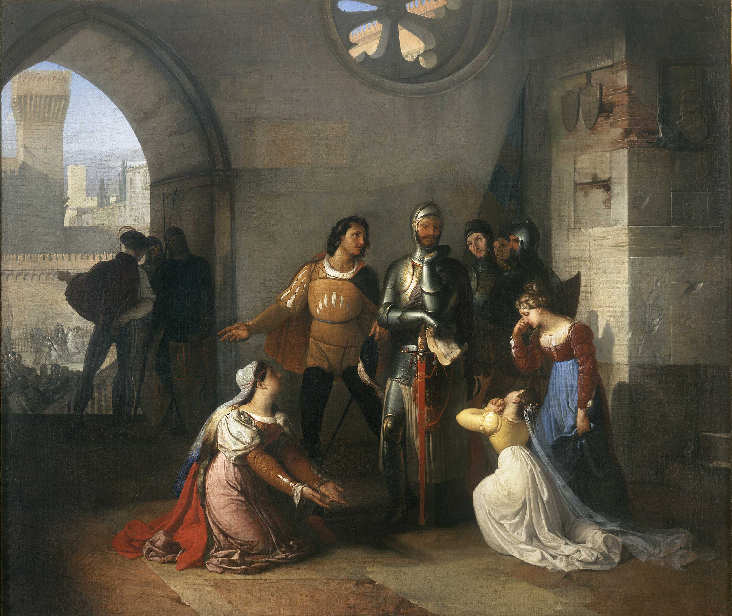 Pietro Rossi prigioniero degli Scaligeri, Francesco Hayez